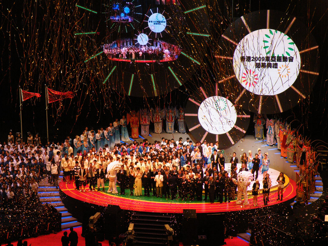 2009 East Asian Games Closing Ceremony - ending